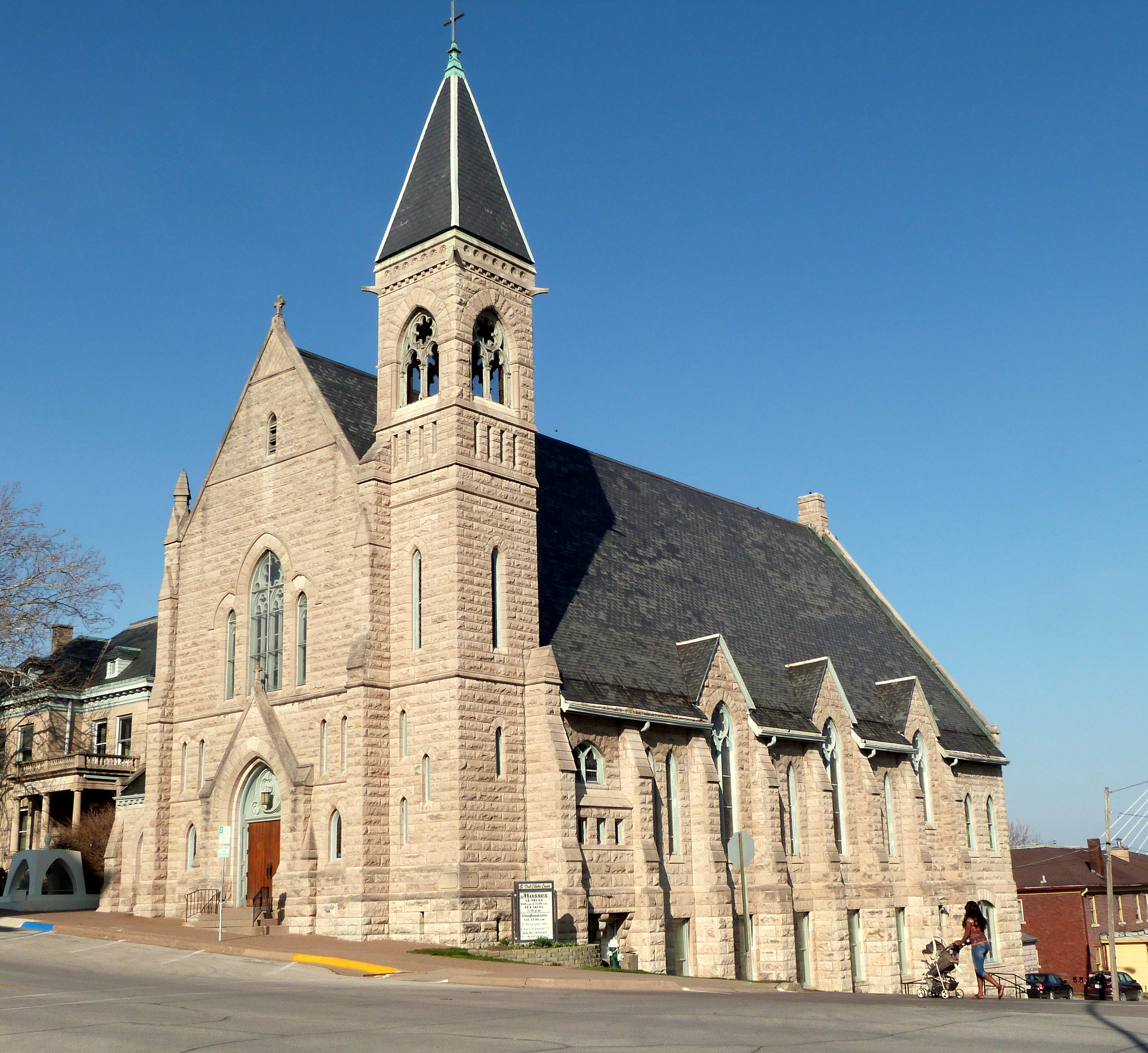 The historic St. Paul Catholic Church (built 1892-1895), located at 508 North 4th Street in Burlington, Iowa, United States, is listed as a contributing resource in the Heritage Hill Historic District. The historic district is listed on the US National Register of Historic Places.